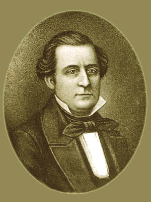 Robert Wickliffe - Governors of Louisiana